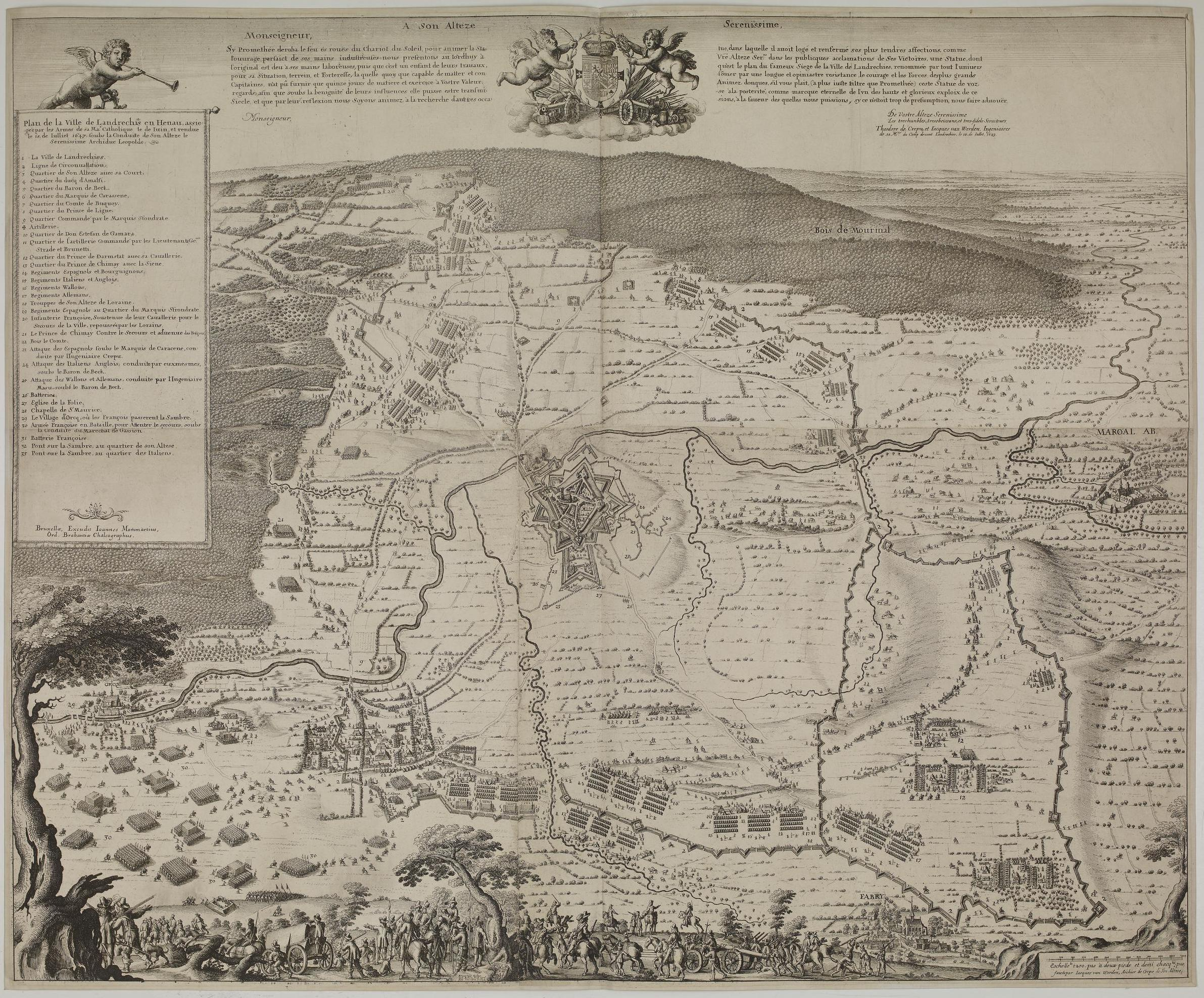 A plan of the city of Landrecies, besieged by the Archduke Leopold, with the Bois de Mourinal in the upper right, men under a tree in the foreground, with carts and guns, the various regiments and forces under several commanders drawn up around the city, including the French army approaching to attack the Archduke and his forces in the left foreground; state with corrections to the text, 'Landrechis' changed to 'Landrechies'. 1648 Etching on four plates on four conjoined sheets of paper